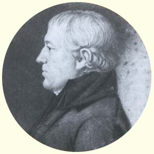 Richard Bassett of Delaware (1745-1815). Engraving, by Charles B. J. Fevret de Saint-Memin (1802).